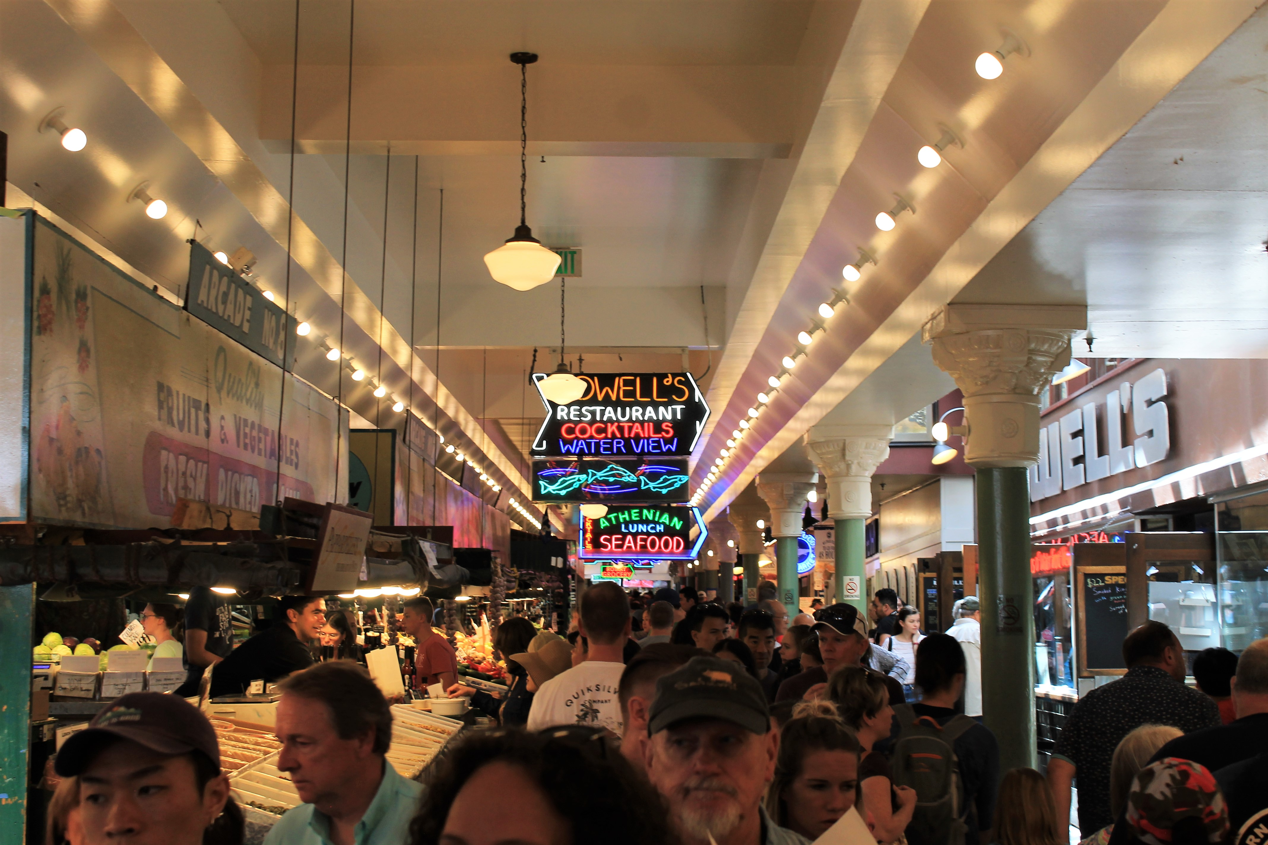 This is a photo of a hallway in Seattle's Pike Place Fish Market. The hallway is filled with tourists, as the fish market is a notable tourist destination in the city.